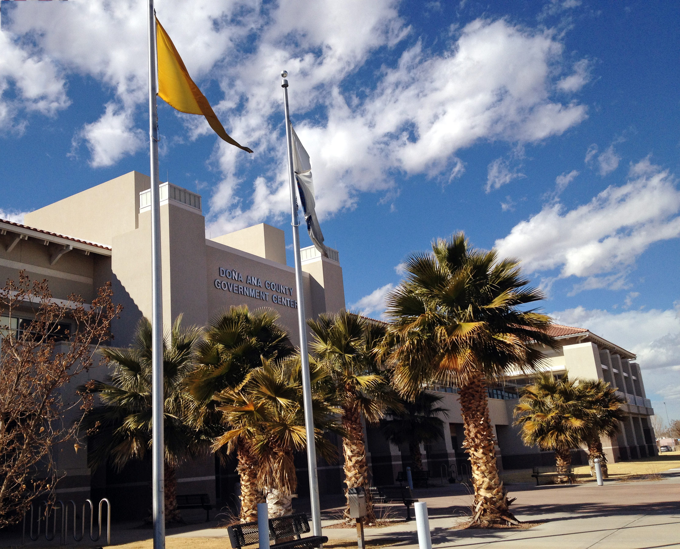 Mesilla, New Mexico: County government office building for Doña Ana County